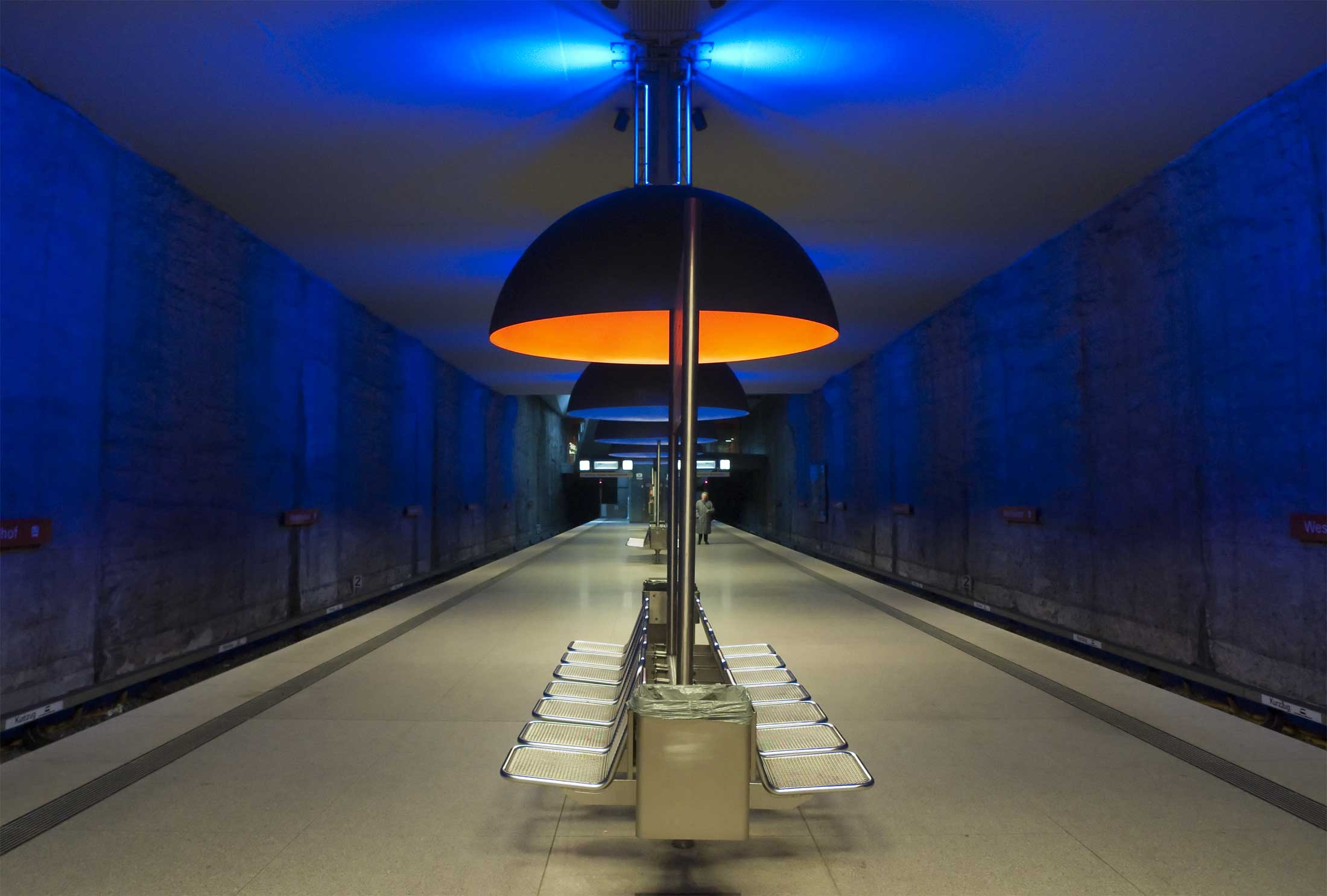 Westfriedhof (U1) Munich